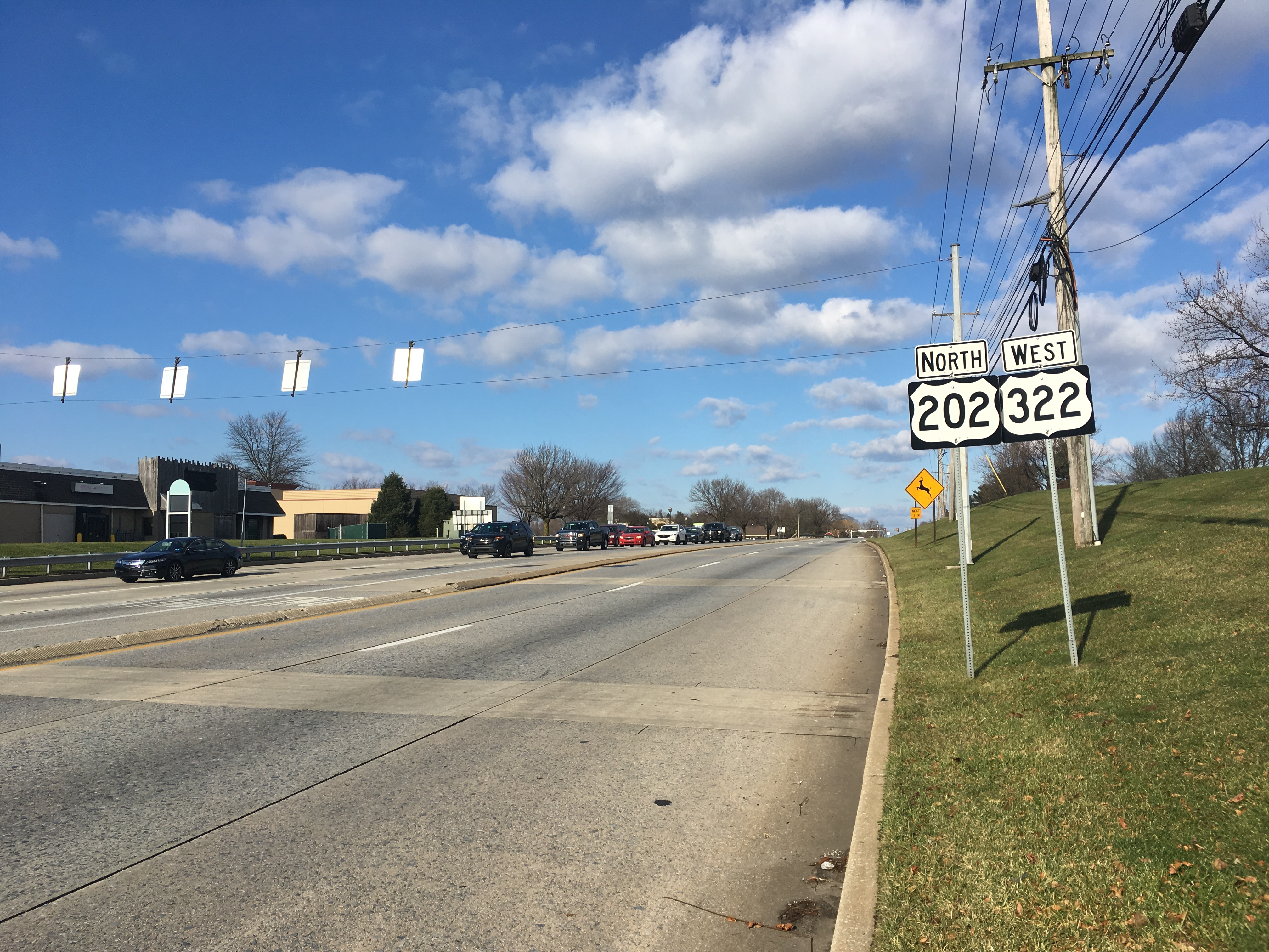 Northbound U.S. Route 202/westbound U.S. Route 322 (Wilmington-West Chester Pike) past the intersection with U.S. Route 1 (Baltimore Pike) in Painters Crossing, Pennsylvania